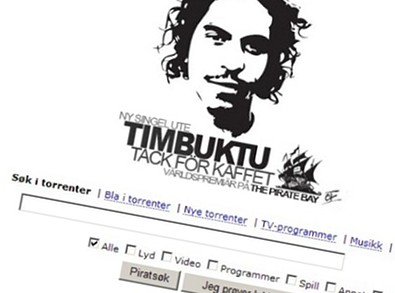 Pirate Bay logo when Swedish artist Timbuktu released his single "Tack för kaffet"